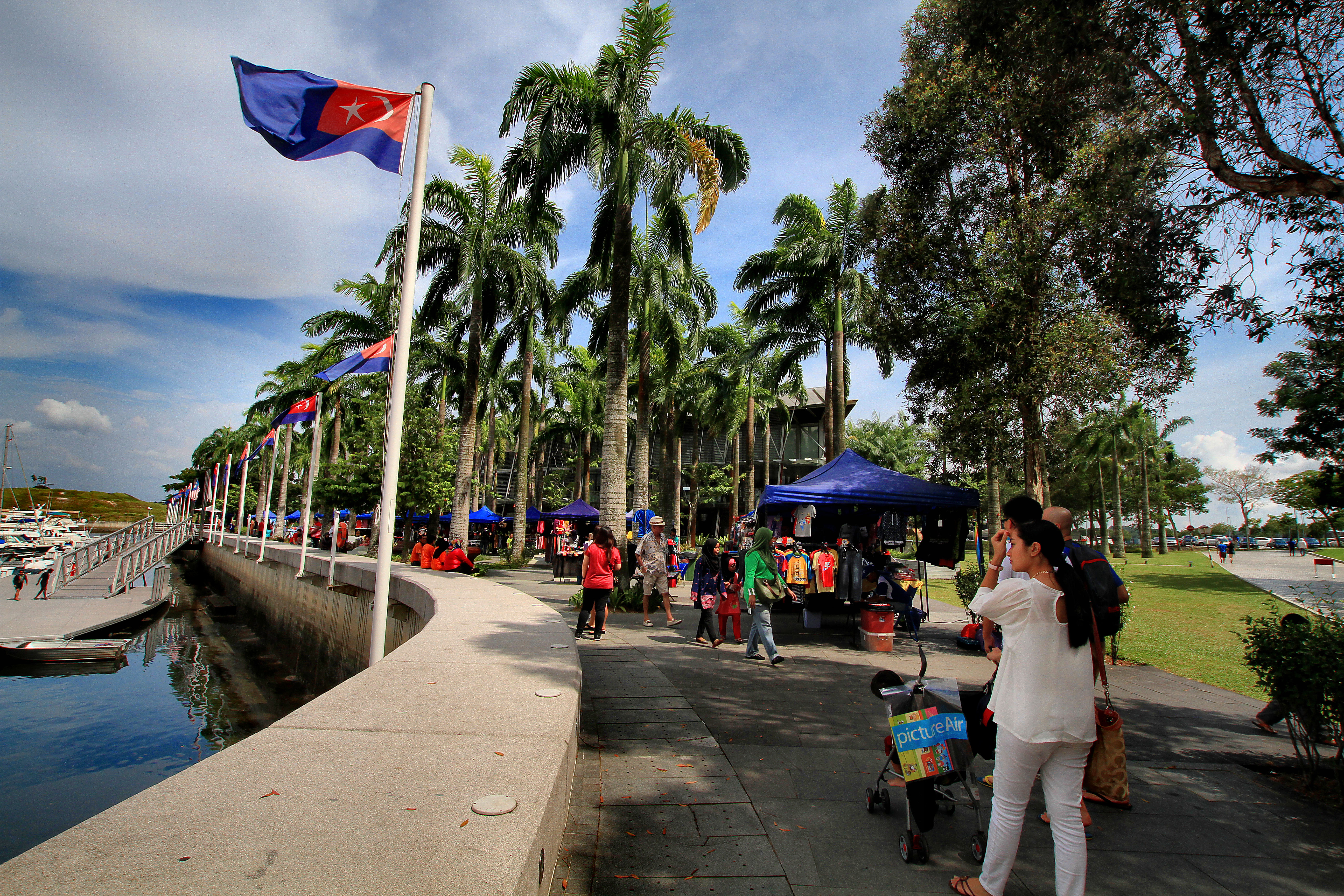 Puteri Harbour in Nusajaya, Johor, Malaysia.